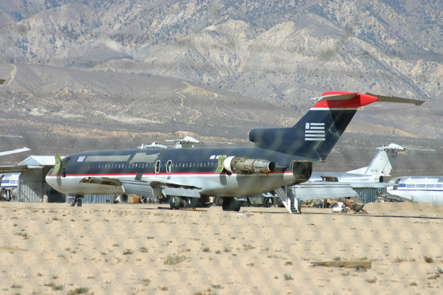 At Mojave